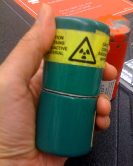 A "lead pig" used in a Nuclear Medicine lab.